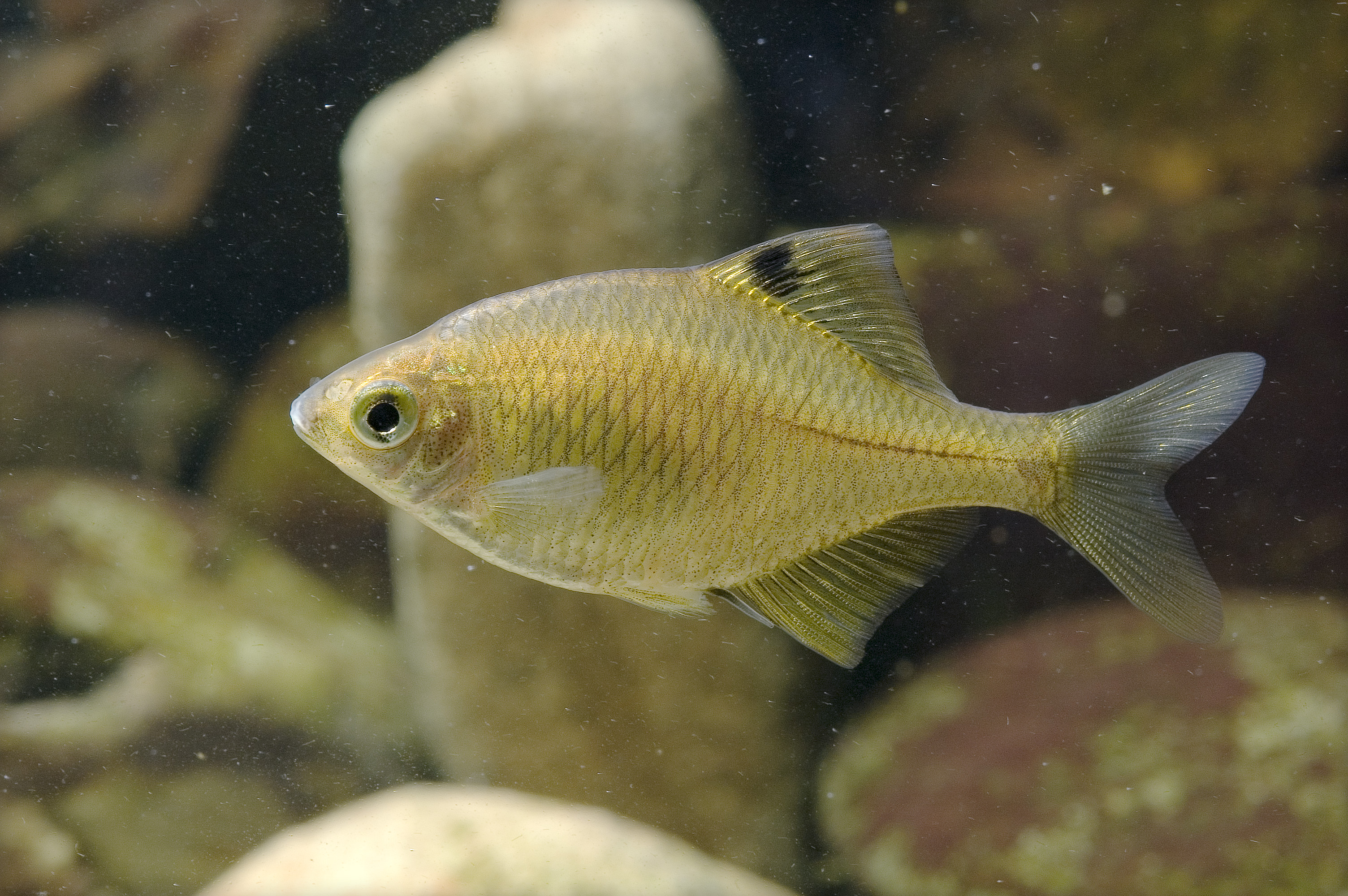 Tairikubaratanago(Rosy bitterling), Rhodeus ocellatus ocellatus, from Hamamatsu, Shizuoka, Japan.